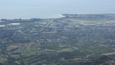 City of Goleta, viewed from somewhere in the Santa Ynez Mountains.